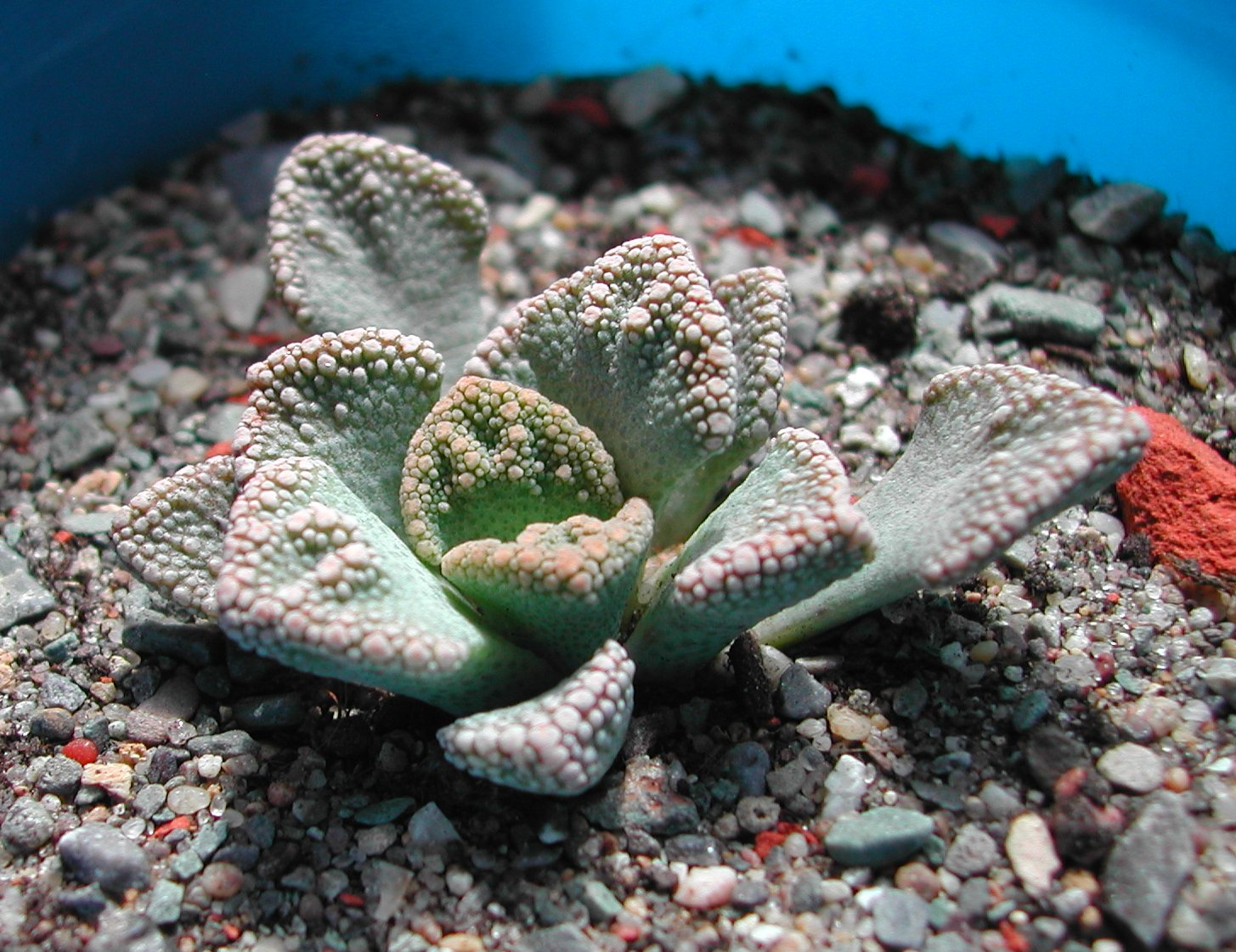 Titanopsis calcara (plant collection of Ivan I. Boldyrev, Berdsk, Russia)